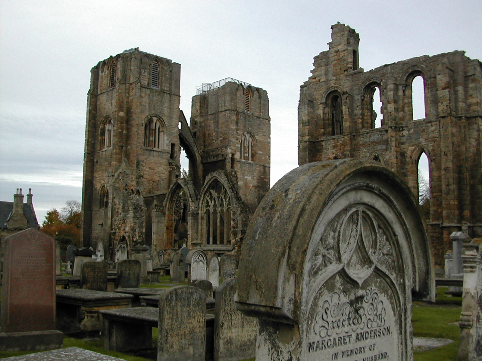 Nom du fichier : DSCN2492.JPG Taille du fichier : 790.2 Ko (809122 octets) Date : 2003/10/26 15:17:48 Taille de l'image : 1600 x 1200 pixels Résolution : 300 x 300 ppp Profondeur en bits : 8 bits/canal Attribut de protection : Désactivé Attribut Masqué : Désactivé ID de l'appareil : N/A Appareil : E775 Mode de qualité : FINE Mode de mesure : Multizones Mode d'exposition : Programme Auto Speed Light : Non Distance Focale : 5.8 mm Vitesse d'obturation : 1/496 seconde Ouverture : F2.8 Correction d'exposition : 0 IL Balance des blancs : Auto Objectif : Intégré Mode Synchro-Flash : N/A Différence d'exposition : N/A Programme Décalable : N/A Sensibilité : Auto Renforcement de la netteté : Auto Type d'image : Couleur Mode Couleur : N/A Saturation : N/A Contrôle Saturation : N/A Compensation des tons : Normal Latitude (GPS) : N/A Longitude (GPS) : N/A Altitude (GPS) : N/A